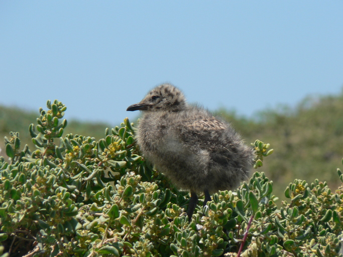 Chroicocephalus novaehollandiae chick at Penguin Island (Rockingham, West Australia, Australia)